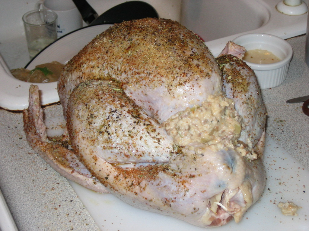 Turkey with spices